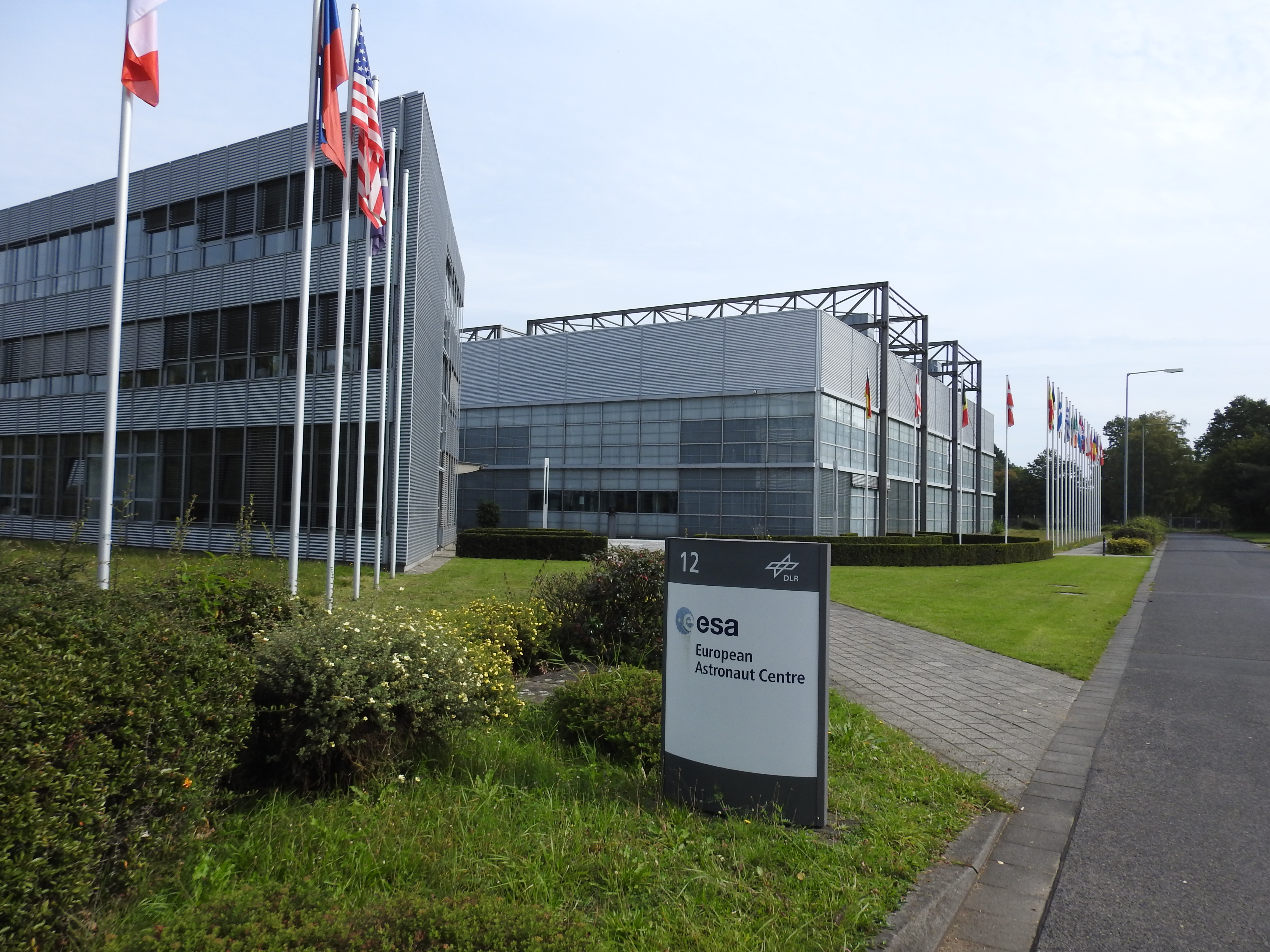 ESA's European Astronaut Centre (EAC) is located in Cologne, Germany. It is the home base for all European astronauts and a centre of excellence for astronaut training and space medicine. It also hosts Spaceship EAC, an initiative focusing on human space exploration and EUROCOM activities i.e. communication with astronauts in orbit.